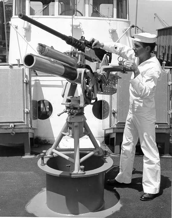 Mk 2 Mod 1 gun mount installed on the deck of a U.S. Coast Guard Point-class cutter.